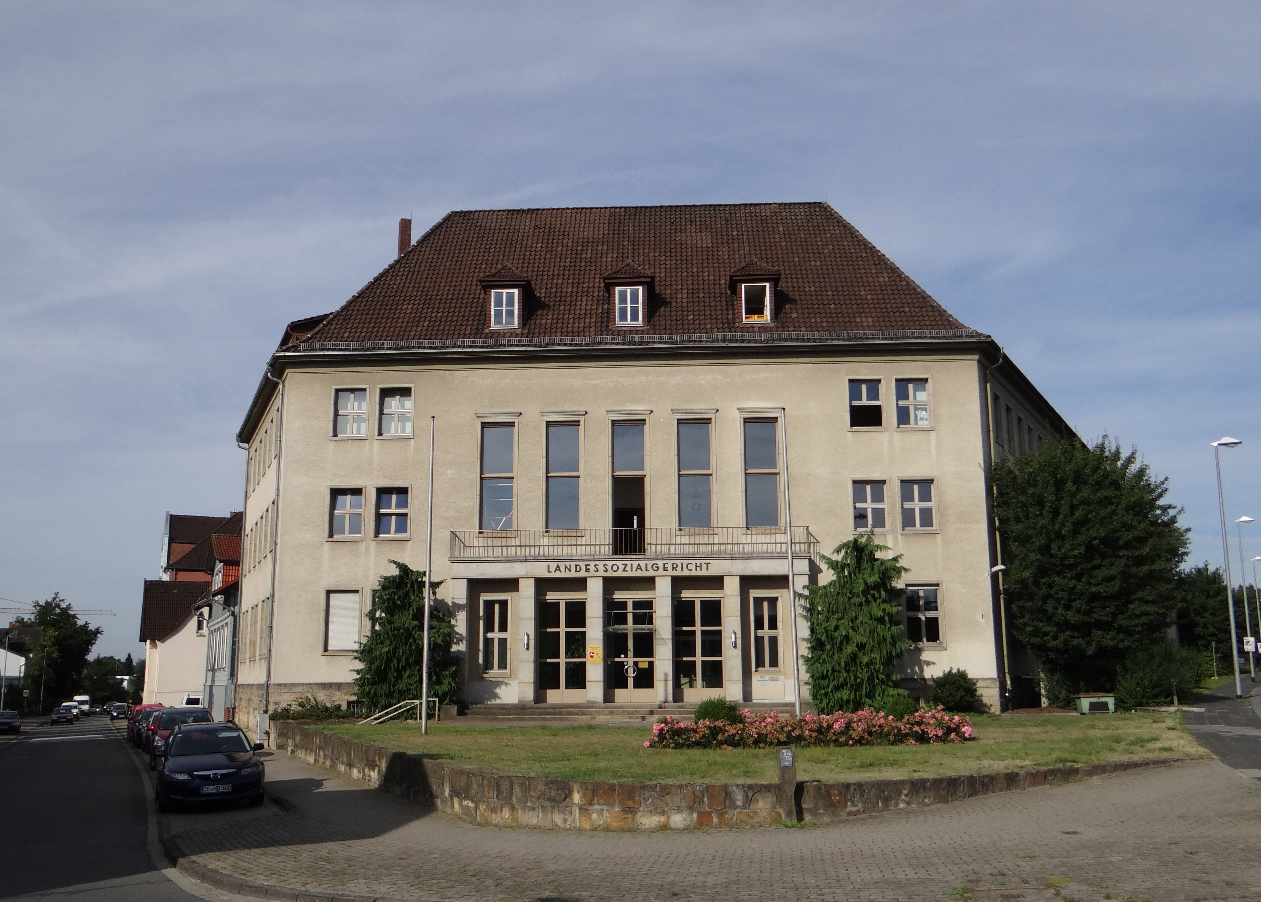 Court house in Celle, Germany.